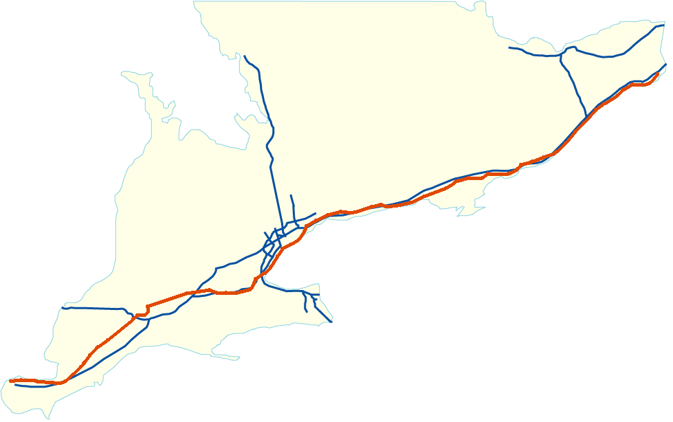 based on :en:Image:400-series-network.gif|Image:400-series-network.gif by User:Snickerdo